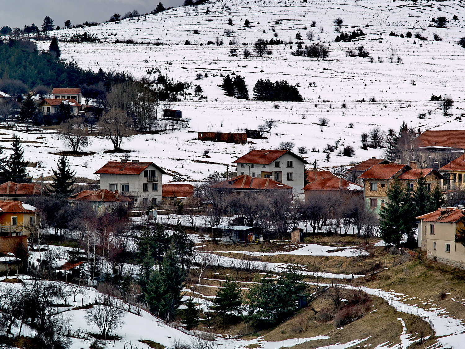 Another Plana district